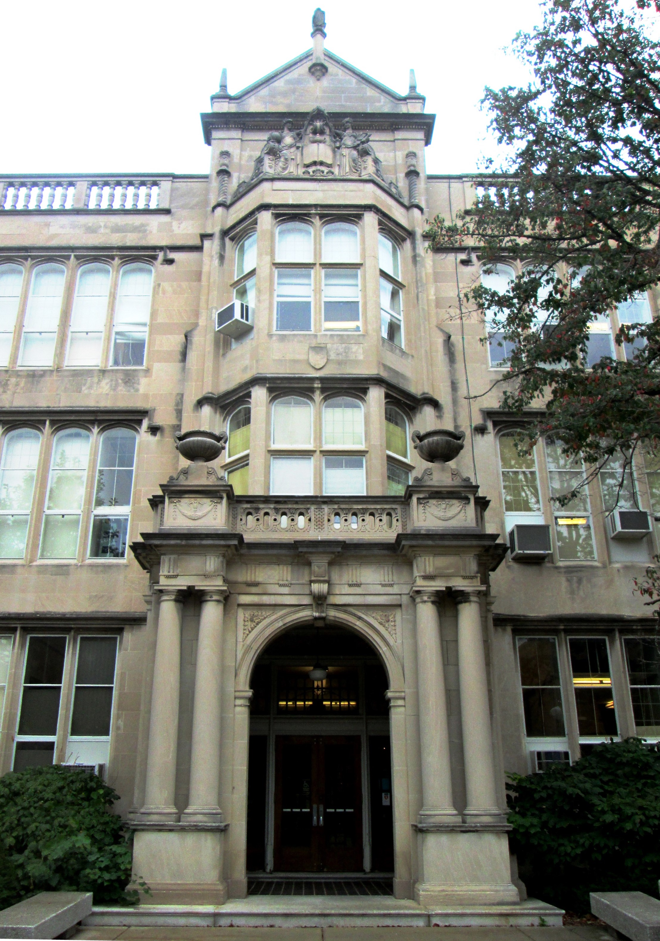 The University Laboratory High School located at 1212 West Springfield Avenue at the corner of North Mathews Avenue in Urbana, Illinois on the campus of the University of Illinois at Urbana-Champaign is a slective-admission public high school (grades 7/8 - 12) which operates outside of the Urbana School District and which has a special relationship with the University. It was founded in 1921, and has an enrollment of approximately 300. The building which houses University Laboratory High School was constructed from 1917-18 and was designed by Holabird & Roche in the Late Gothic Revival style, with James M. White as the supervising architect. When the building was completed, it was almost immediately converted into hospital for the duration of World War I. It was turned over the high school in time for the beginning of the 1921-22 school year. (Sources: [1], [2] and [3])